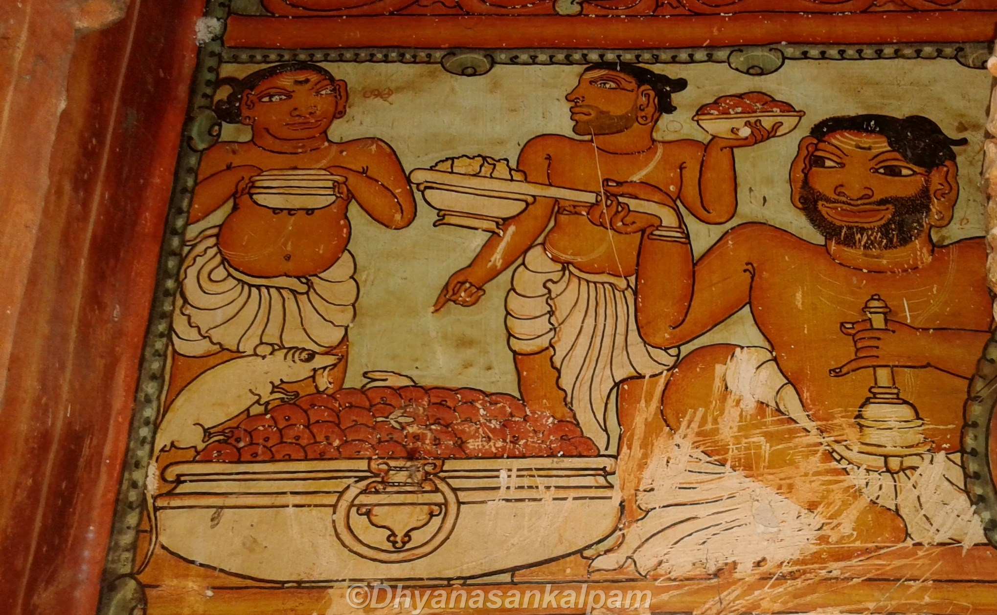 തൊടീക്കളം ചിത്രങ്ങൾ-ഗണപതീപൂജ